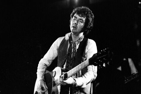 Ronnie Lane, bassist for the Small Faces